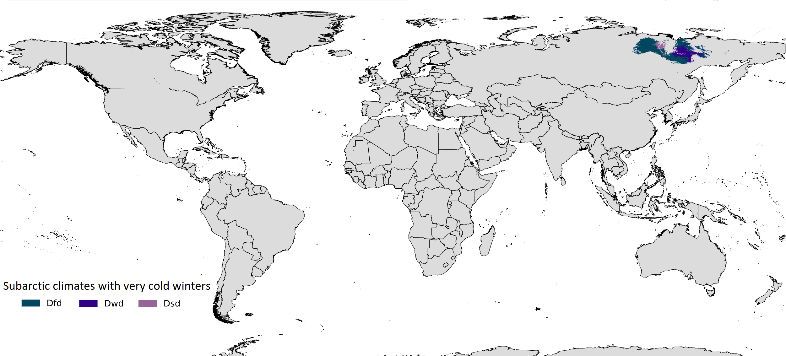 Global map for strong continental climate (Dd)